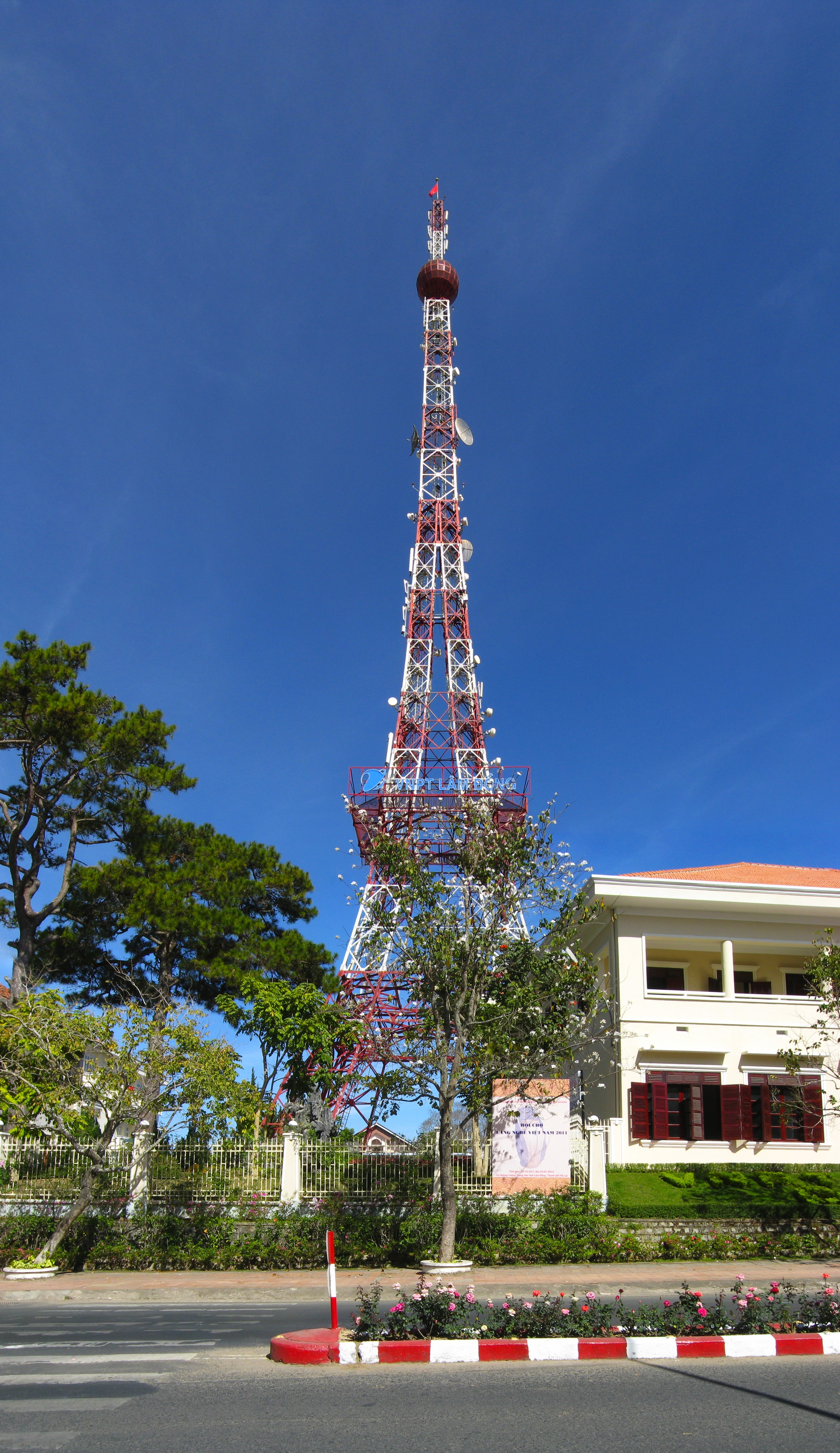 Cot phat song buu dien Da Lat, chup panorama